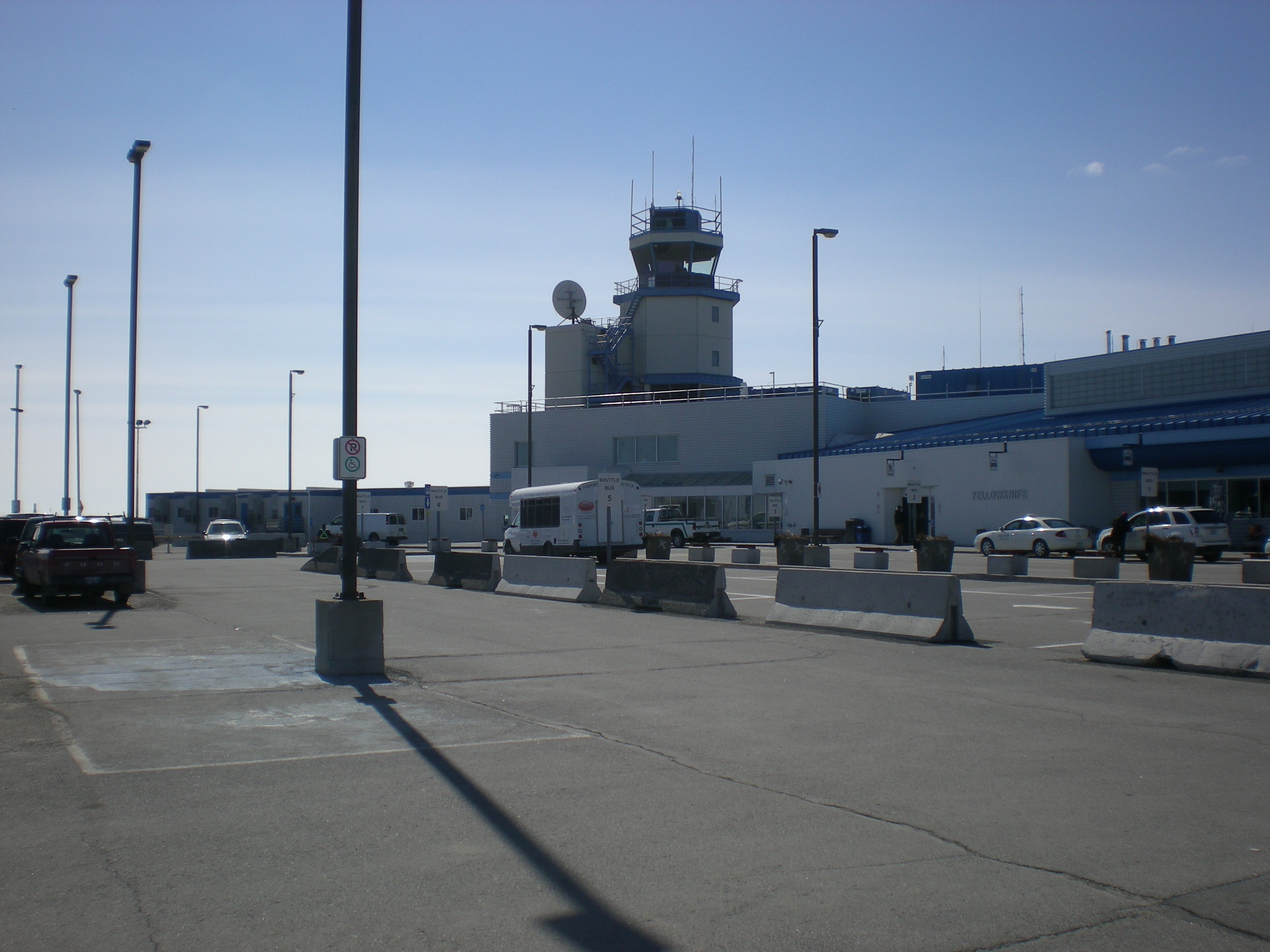 The front of Yellowknife Airport from left to right.